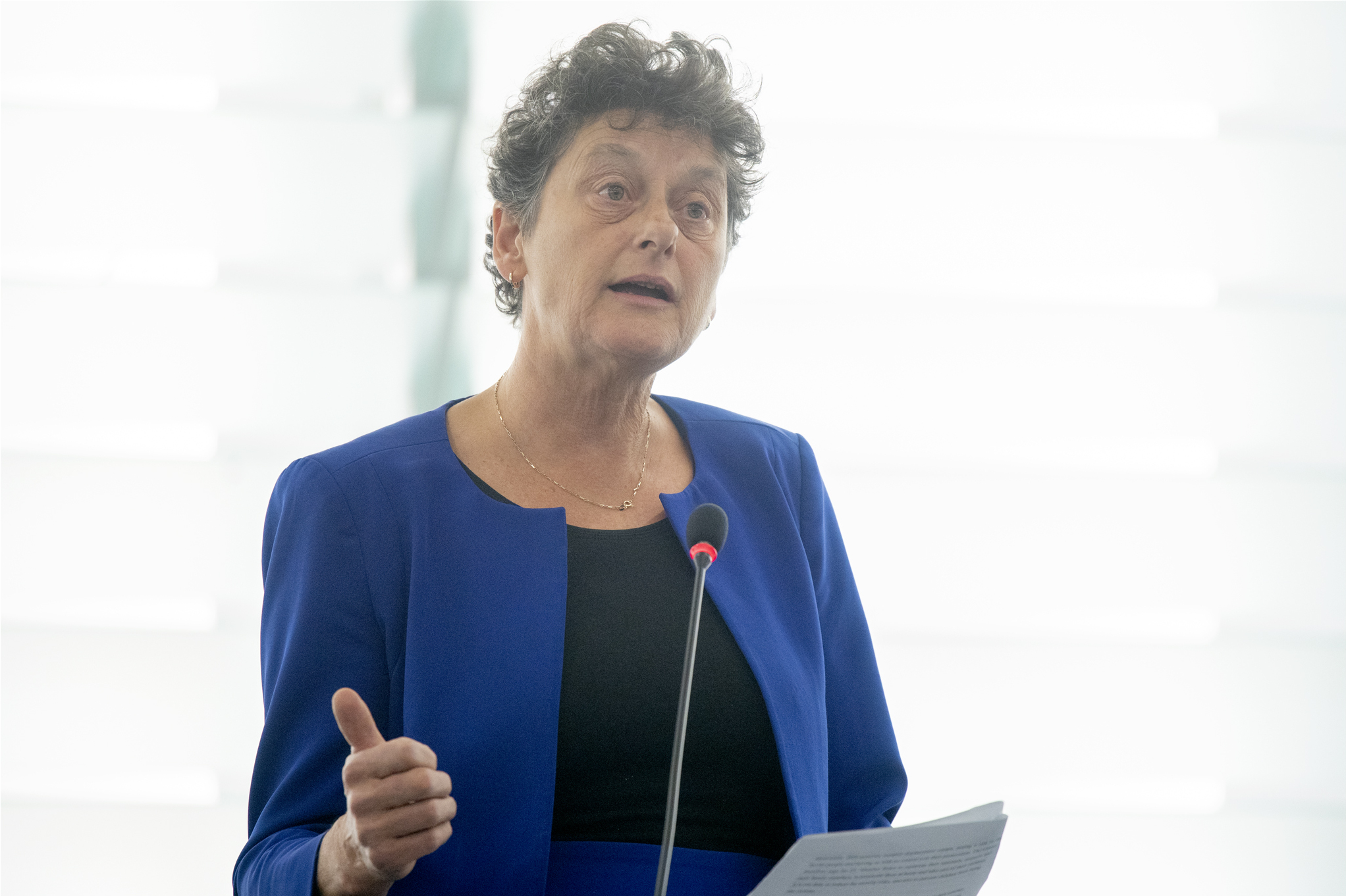 Tineke Strik during a debate calling for measures against Turkey following military operation in Syria in the European Parliament